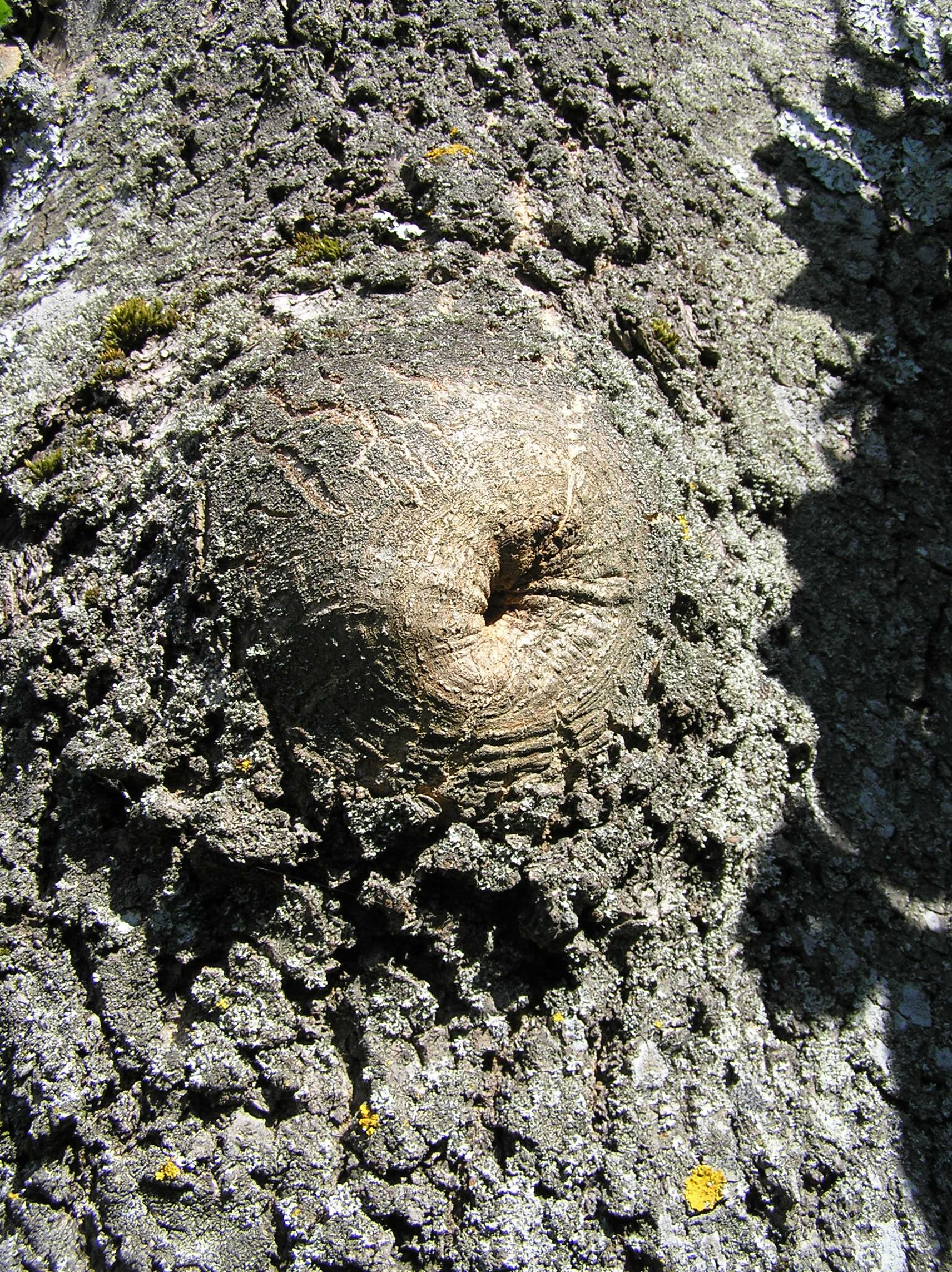 Healing over occlusion, belly on Fraxinus excelsior, Białowieża forest, Poland